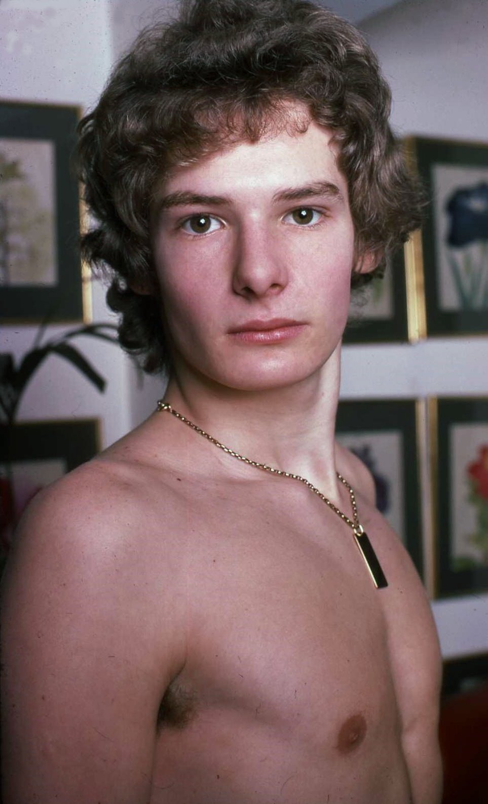 portrait of Mark Lester